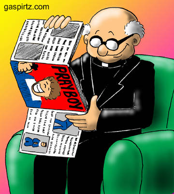 Cartoon about a priest reading an adult magazine.